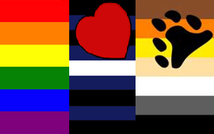 Gay Leather Bear Cub Flag created for the purpose of an alternative flag for a range of gay subcultures. Combines: Gay rainbow flag BDSM leather flag "Bear" flag